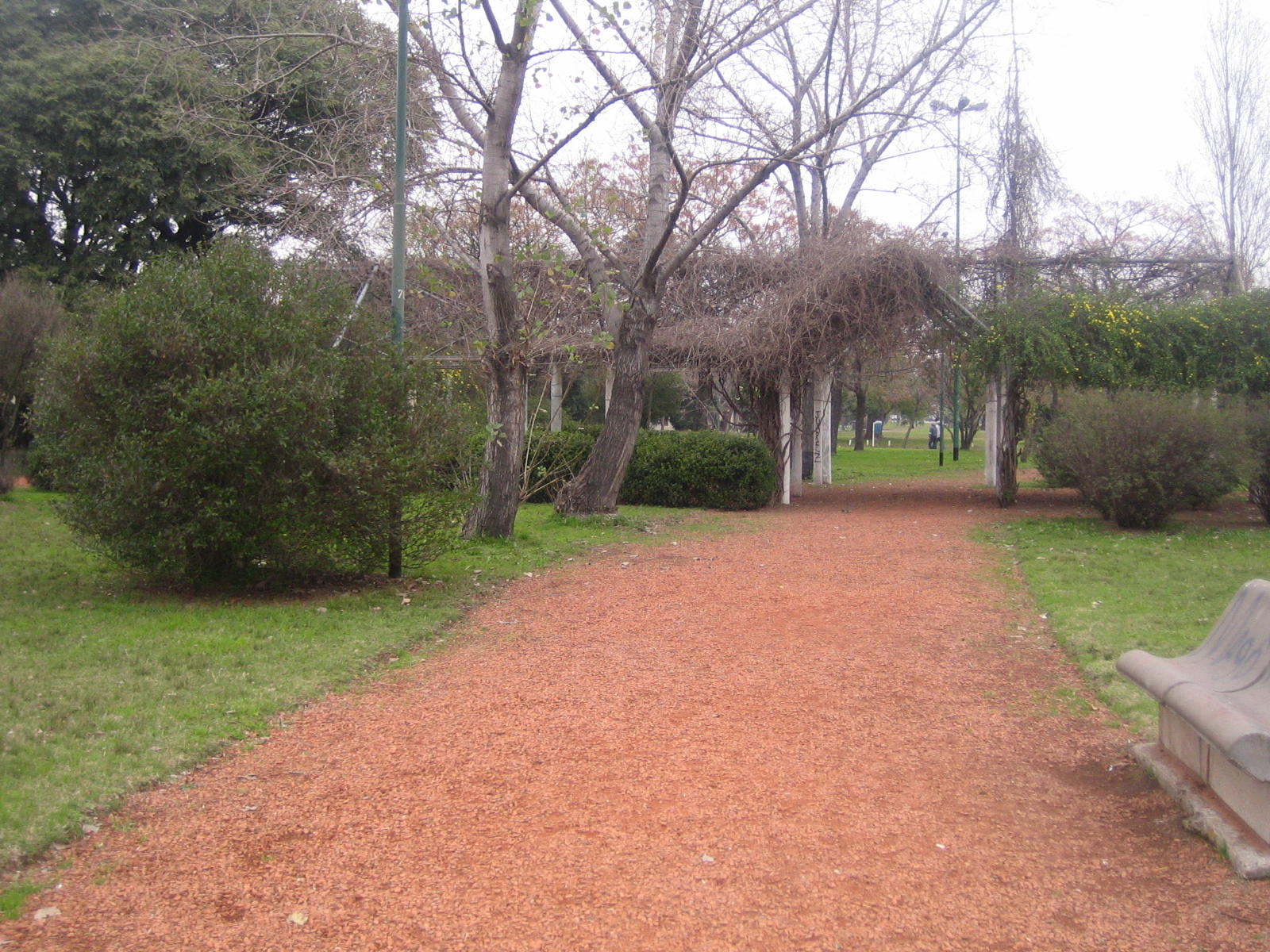 General Paz Park - Buenos Aires - Argentina